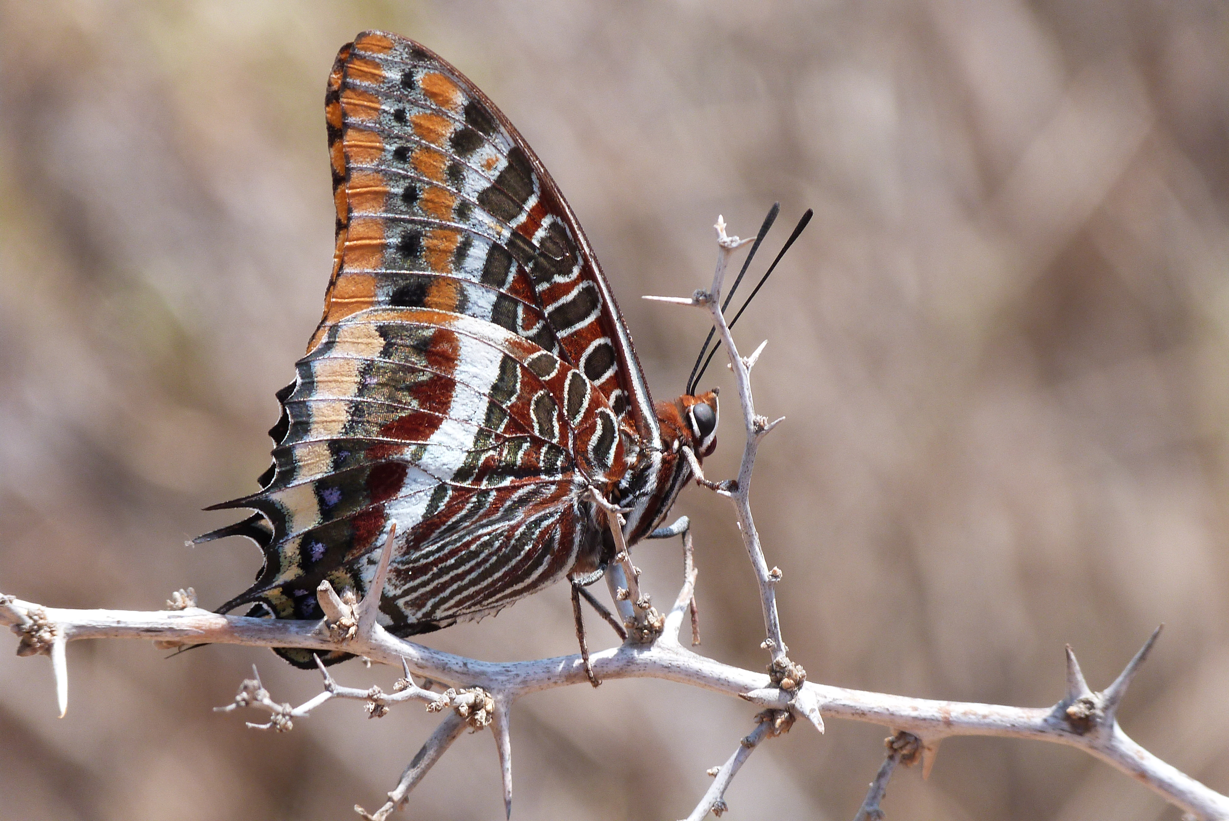 Photo of a Charaxes jasius landed on a arbutus unedo taken by Valerie Ernould on Chemin du Puntiglione Cargese (20130) in Corsica (France) in August 08, 2014